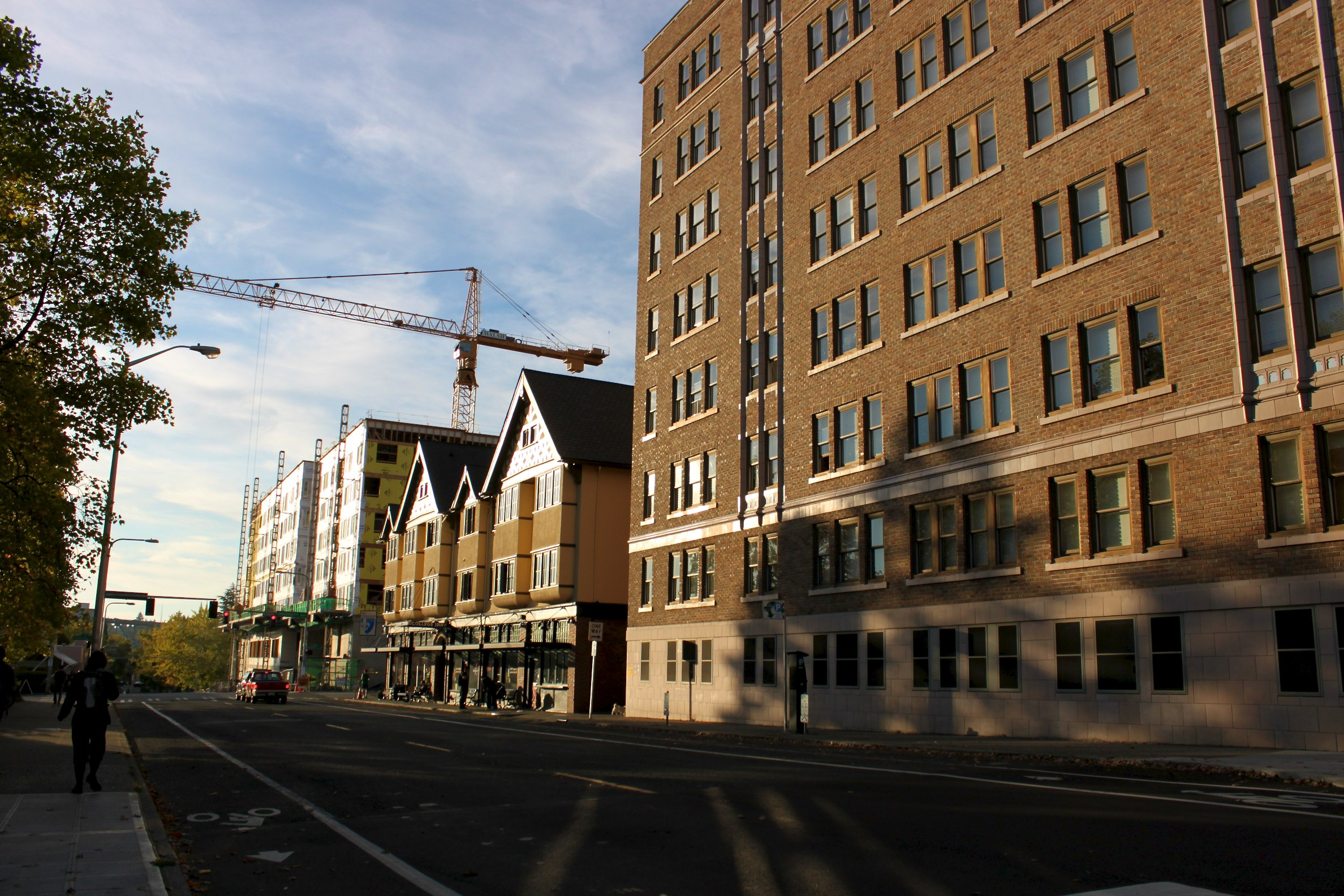 NE 40th St and 15th Ave NE